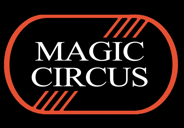 MAGIC CIRCUS2